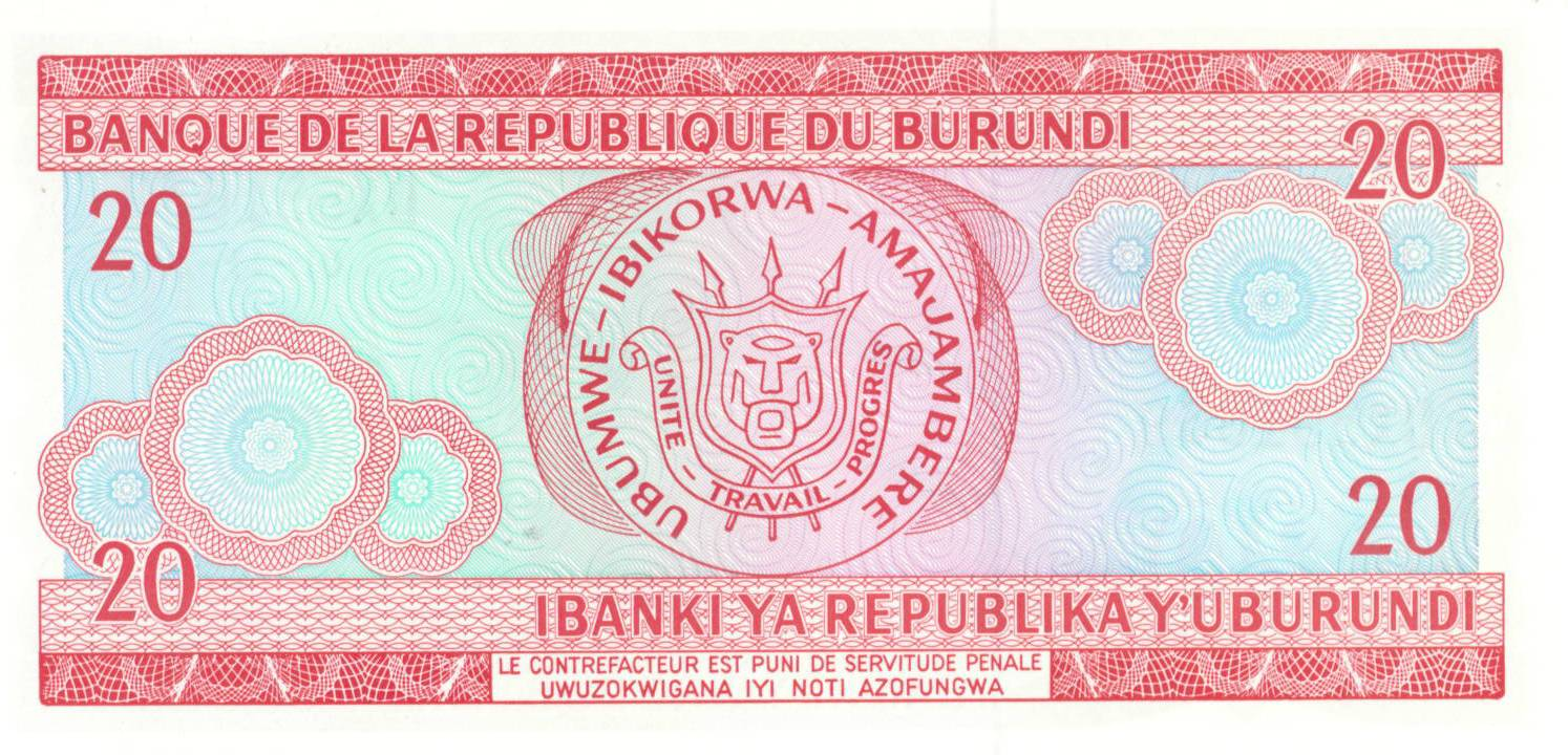 Burundi 20 Franc Reverse